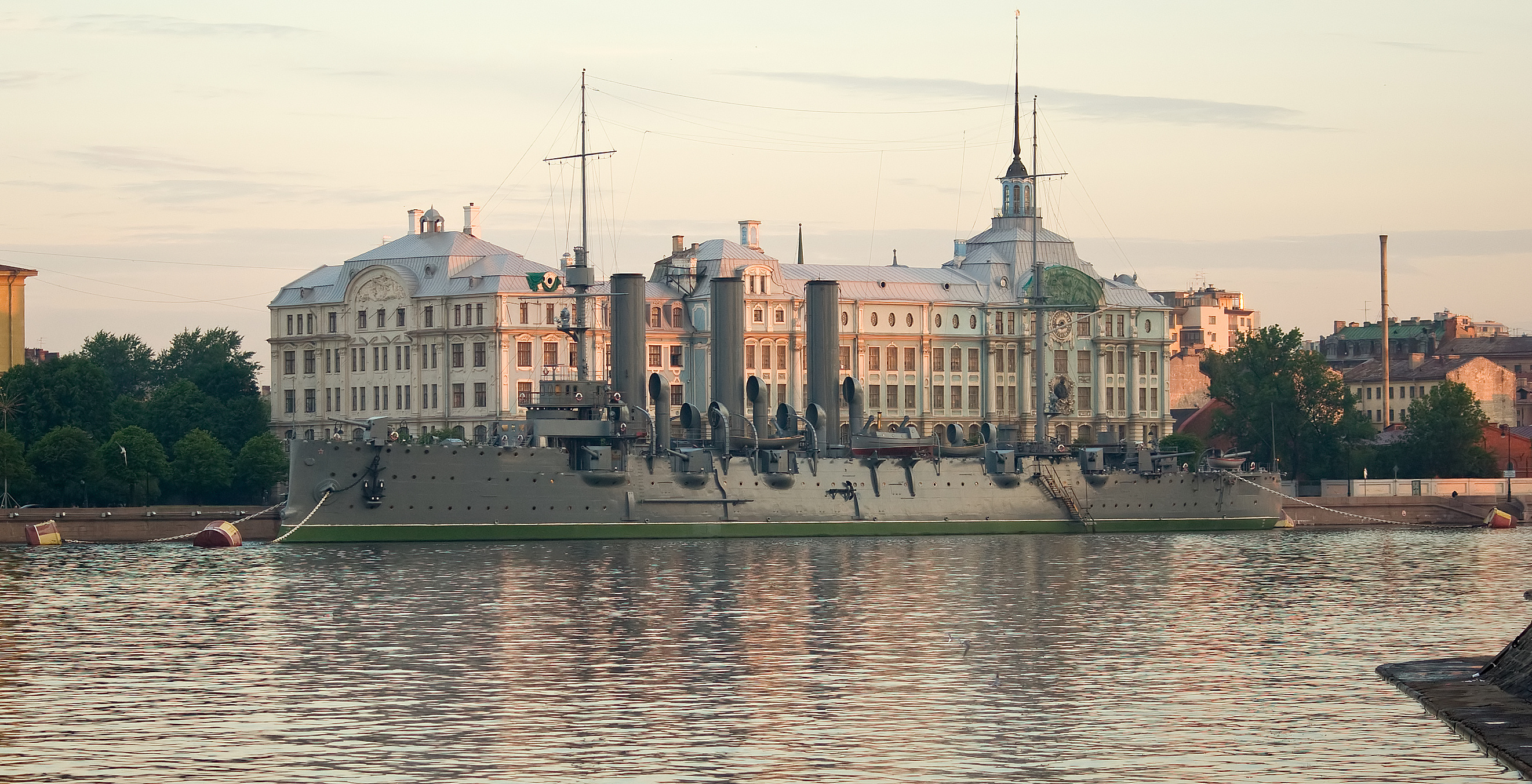 Russian cruiser "Aurora" as a museum ship in St. Petersburg, Russia.